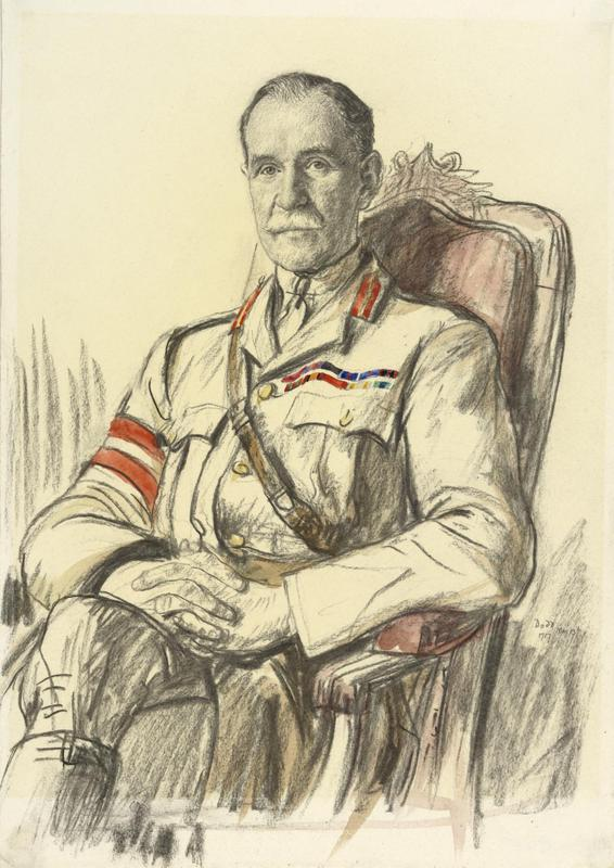 Lieut-general J Aylmer L Haldane, Cb, Dso image: a three quarter length portrait of Lieutenant-General Aylmer Haldane in uniform, seated with his legs crossed and his hands interlaced on his lap.